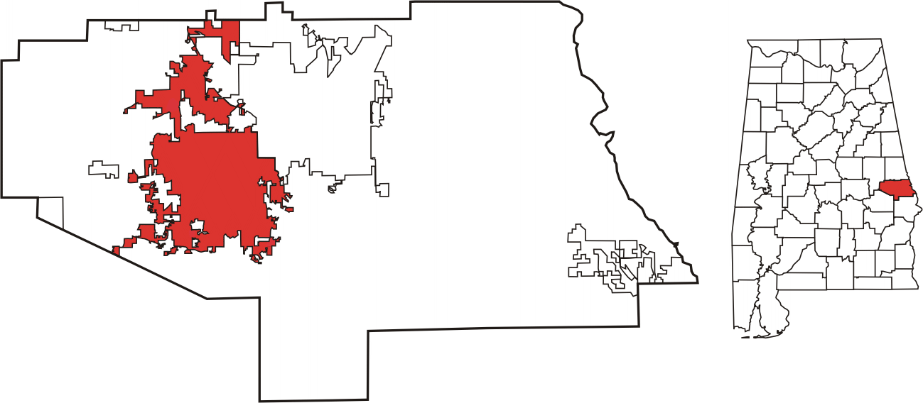 Location of Auburn in Lee County.